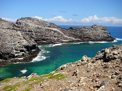 Shark Bay, Necker Island (Mokumanamana), Northwestern Hawaiian Islands